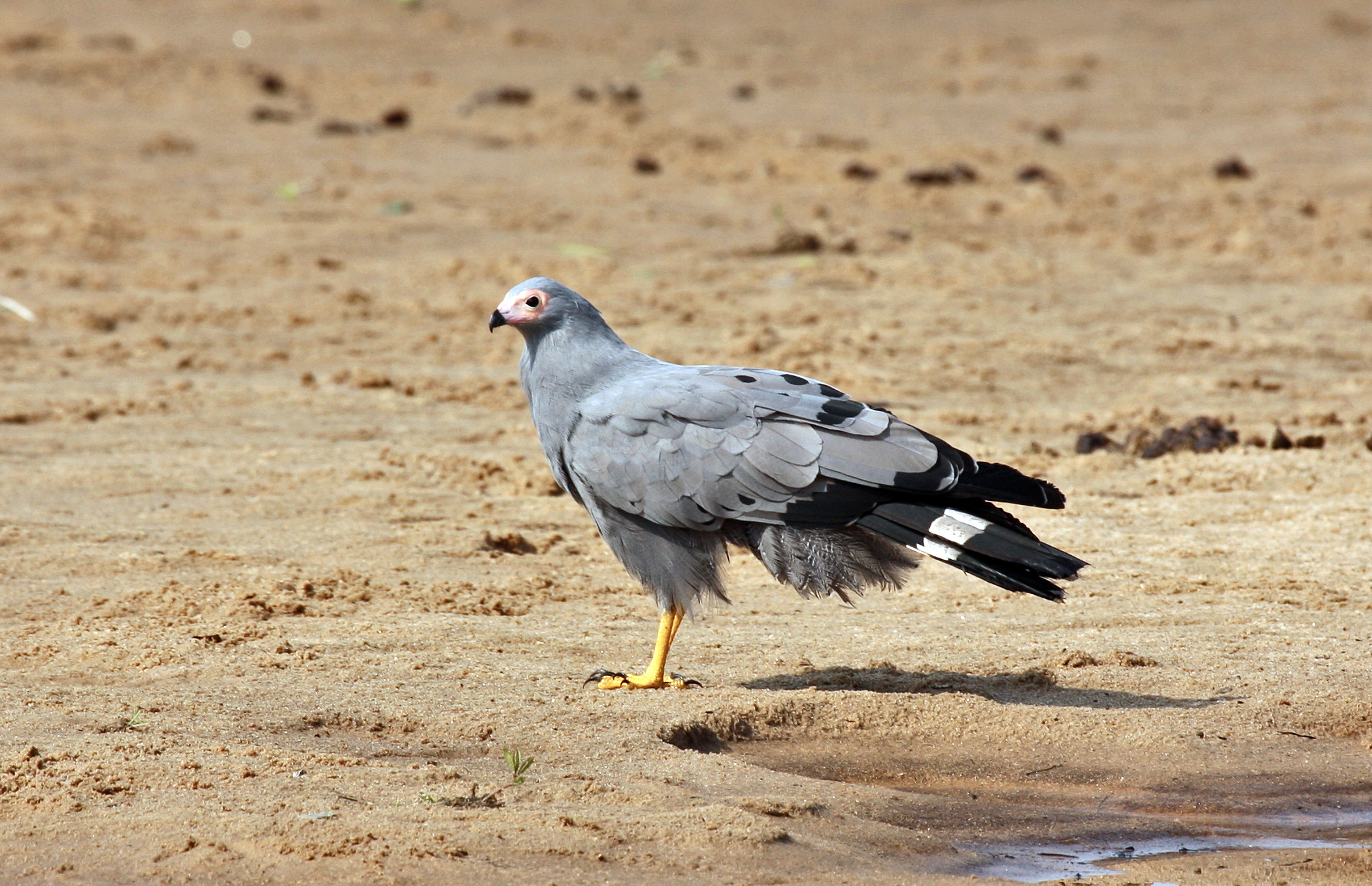 An African harrier-hawk near Sand River Selous in Selous Game Reserve, Tanzania